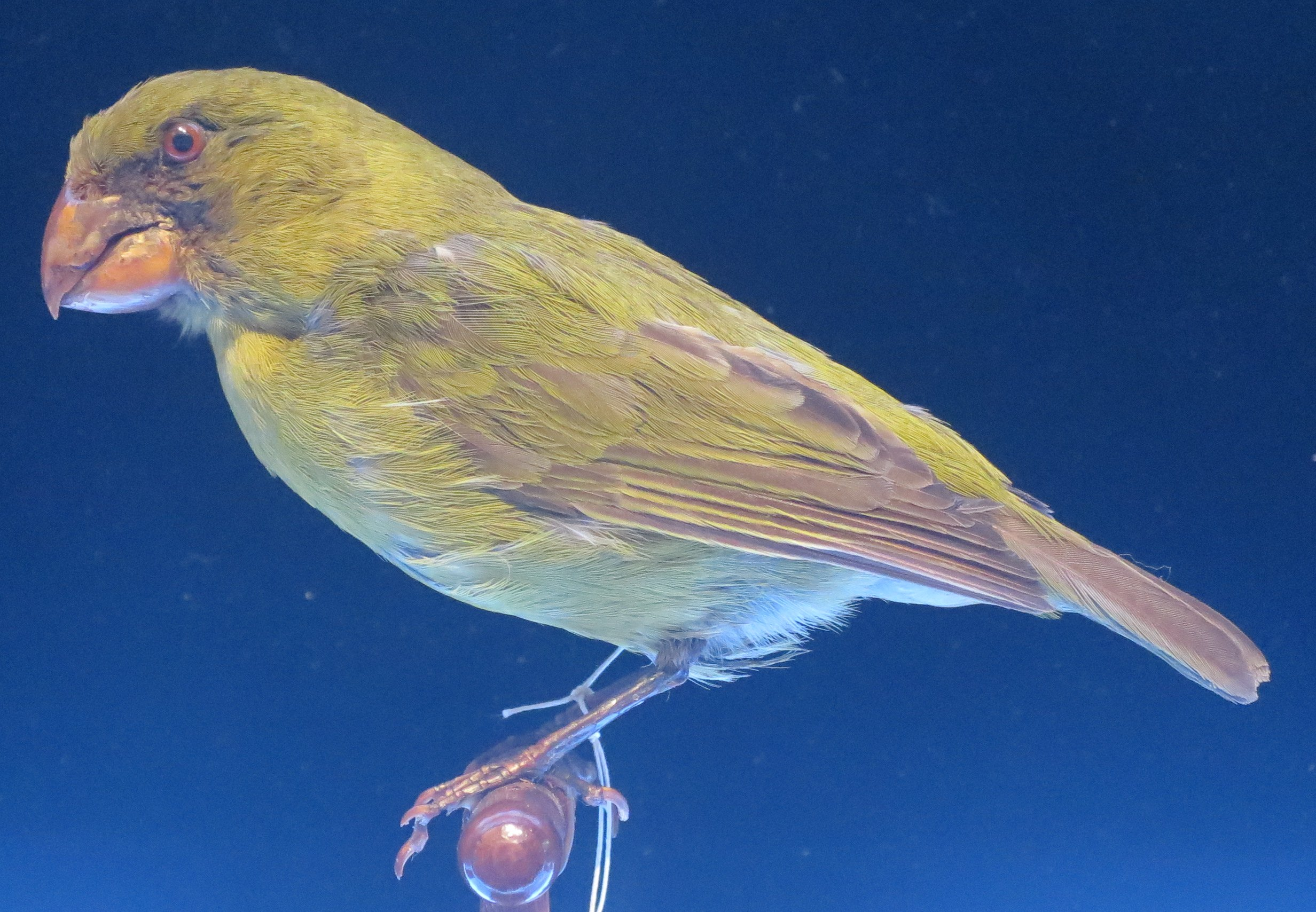 Chloridops kona Wilson, Bishop Museum, Honolulu